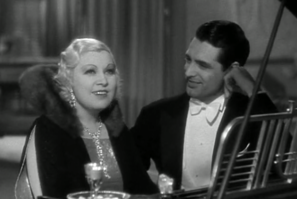 Cropped screenshot of Mae West and Cary Grant in I'm No Angel trailer.